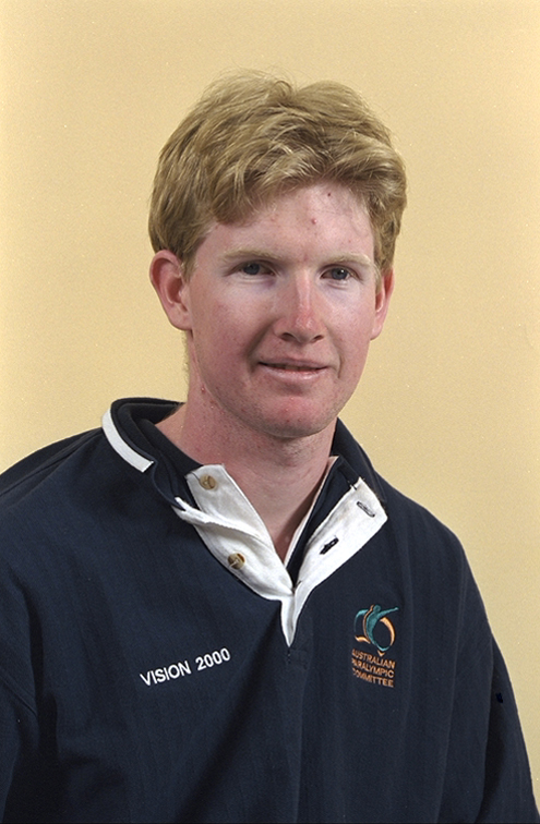 Portrait of Australian athletics competitor Lee Cox, 2000 Australian Paralympic Team athlete